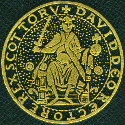 Image of the seal of the Masonic Lodge St David, No.36, (Edinburgh, Scotland).